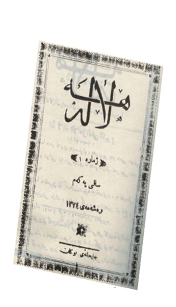 The first Kurdish newspaper, Kurdistan Mokerian called the Boukan Halaleh